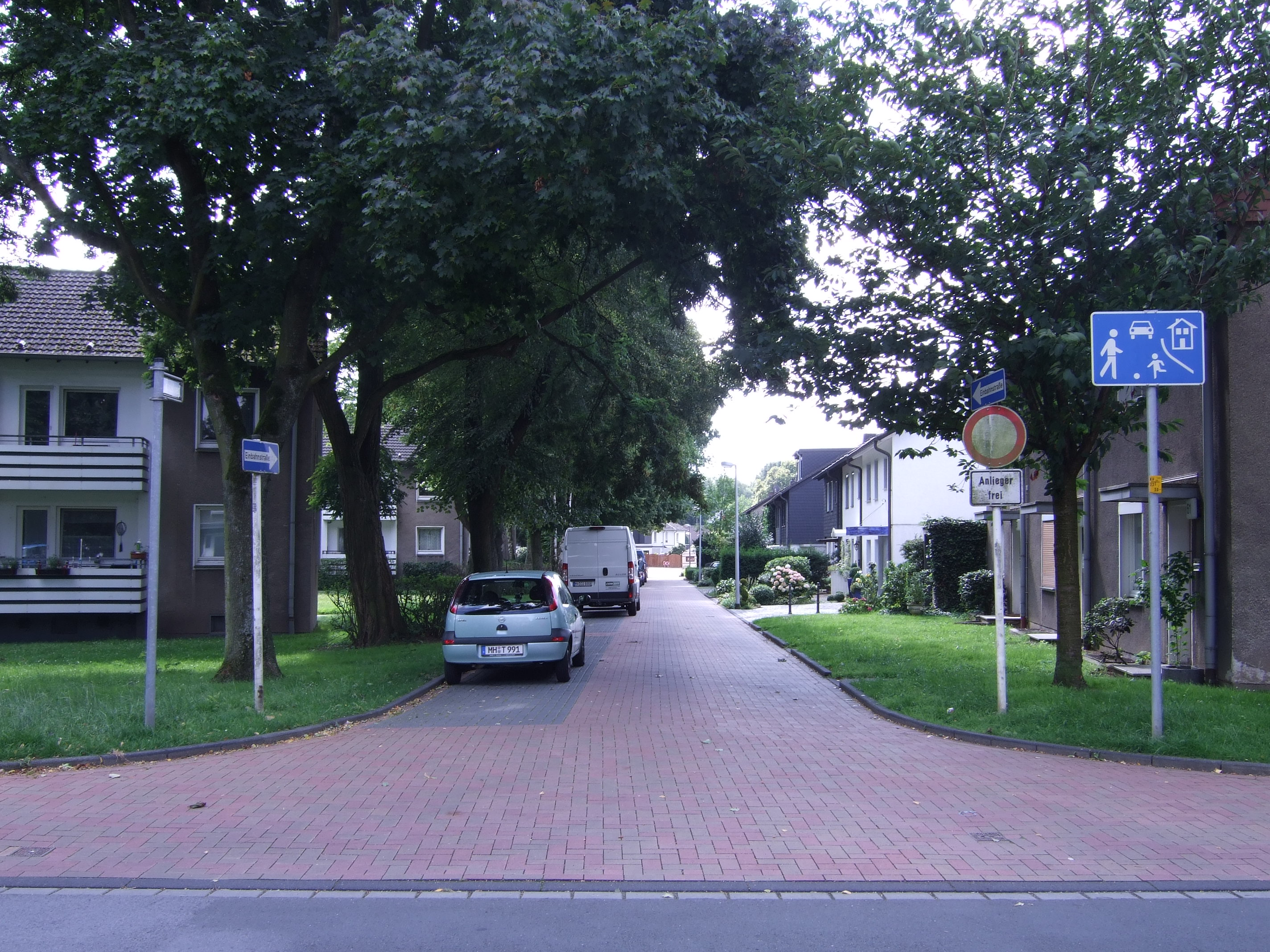 Drosselweg in Mellinghofen with traffic sign and red bricks as traffic-calming measures.